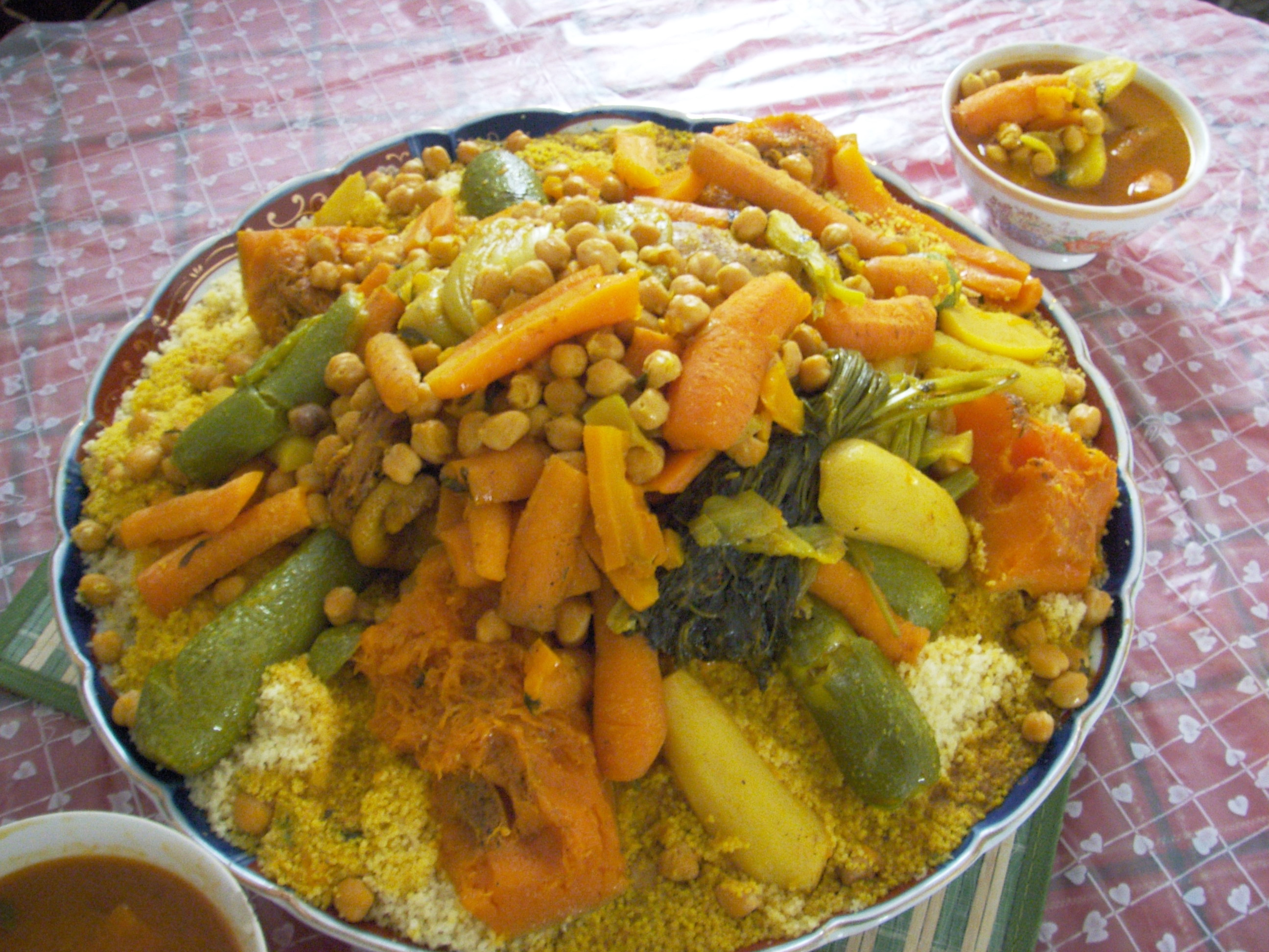 Couscous of Fès from 09.06.2007